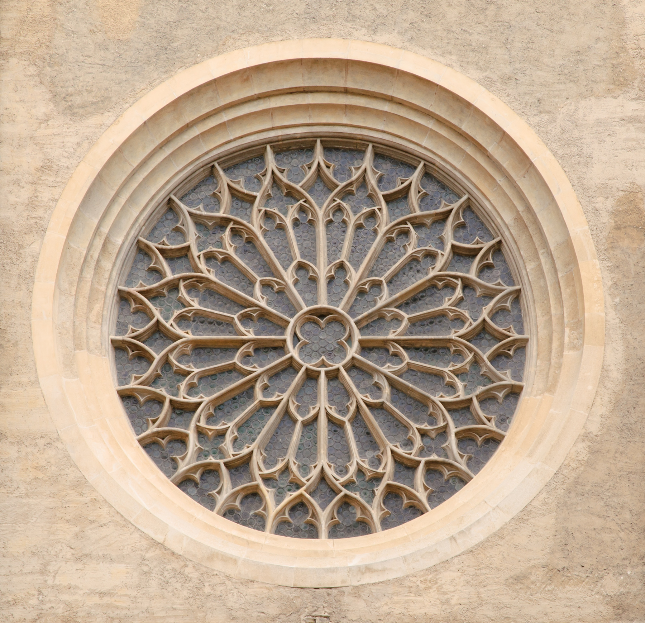 A rose window on the south facade of the Minorite Church, Vienna.